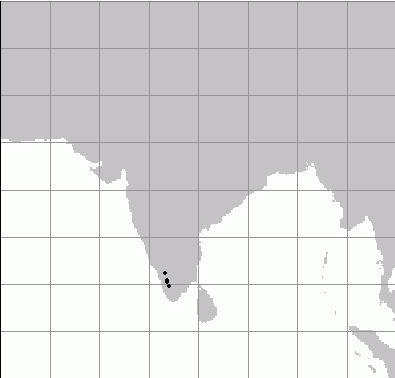 Map of Nasikabatrachus distribution